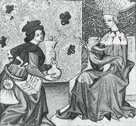 Elizabeth Granowska and Her Doctor